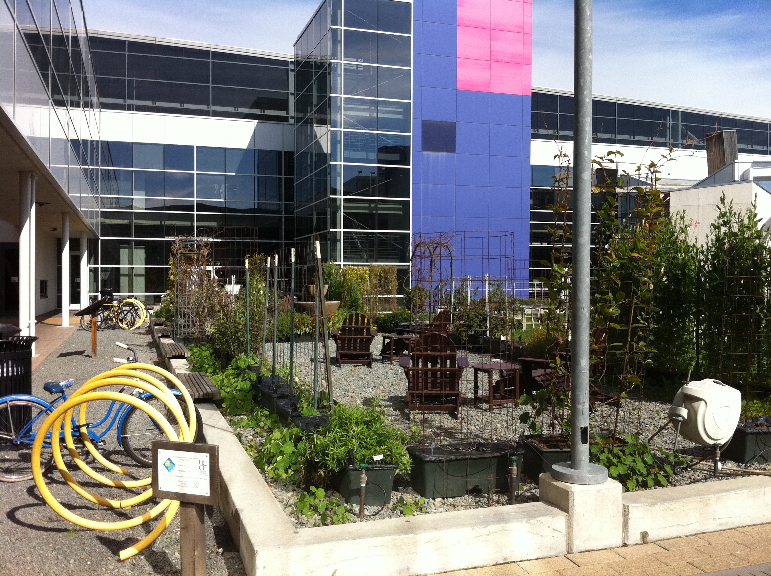 Google Mountain View campus garden